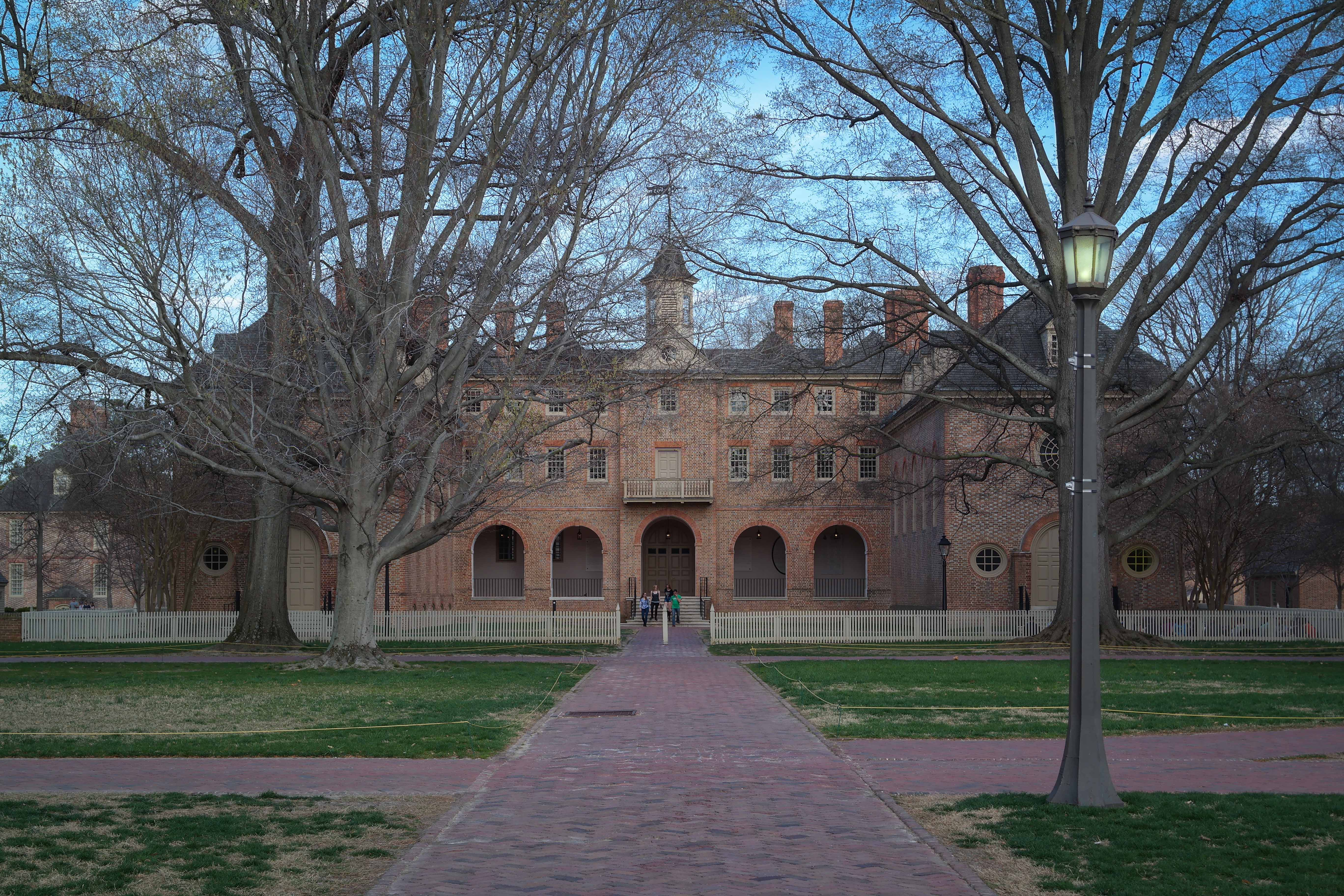 A view of the Wren Building from the Sunken Garden at the College of William and Mary in Williamsburg, Virginia